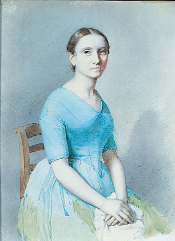 Albertina Sanvitale (daughter of Marie Louise and Neipperg)